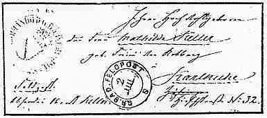 Feldpost (Military Mail), Postmark, Historical German State of Baden, Juli 2nd, 1866